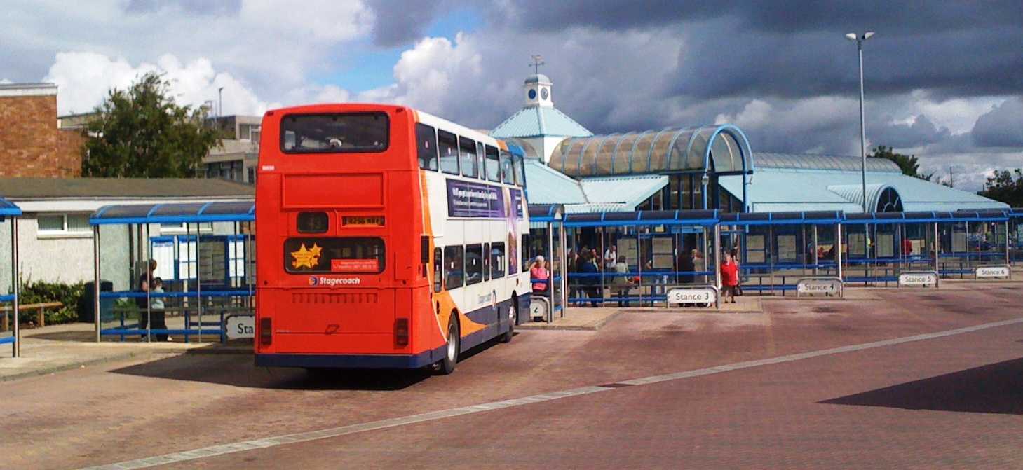 Glenrothes Bus Station and concourse with parked double decker bus.